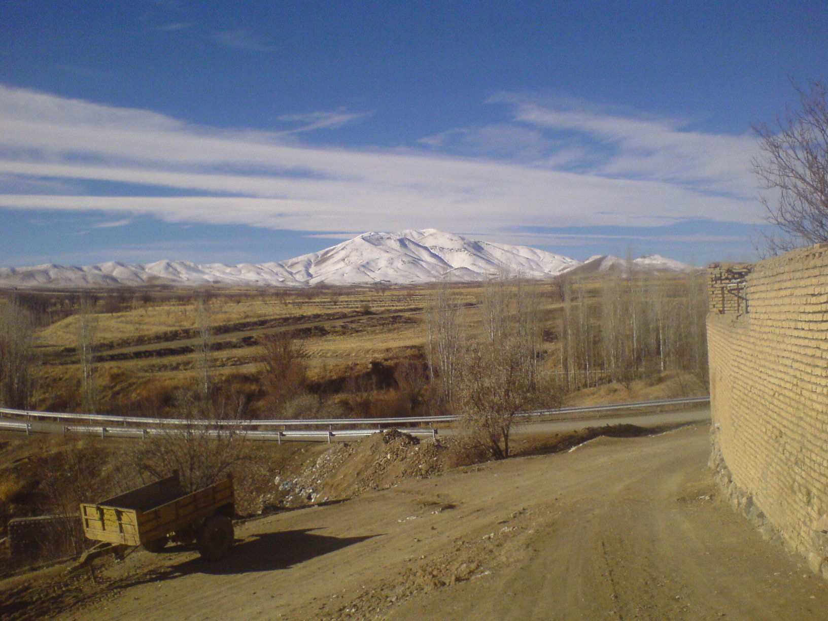 faraj abad فرج آباد روستایی زیبا در استان مرکزی شهرستان خمین